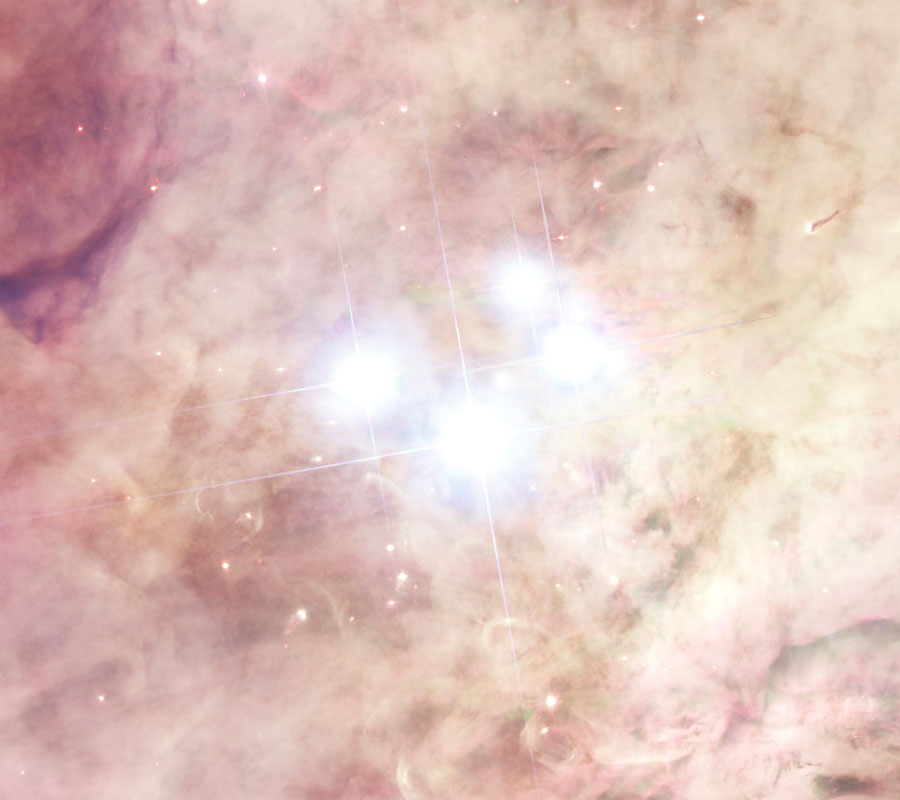 Part of Hubble picture of the Orion Nebula showing Trapezium.